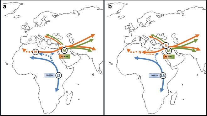 Two possible models of L3's dispersal according to the Africa origin hypothesis (as represented by Vai et al.): (a) Haplogroup N differentiates from L3 in the African continent, with a subsequent spread out of Africa. (b) Haplogroups M and N diverged from L3 outside Africa or during the expansion of L3-carrying AMH out of the continent; later migrations during Early Upper Paleolithic and the Neolithic diffusion led some lineages back to North Africa.